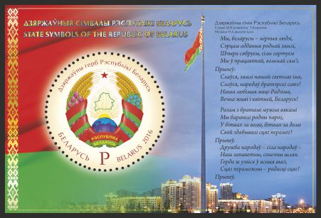 State symbols of the Republic of Belarus.